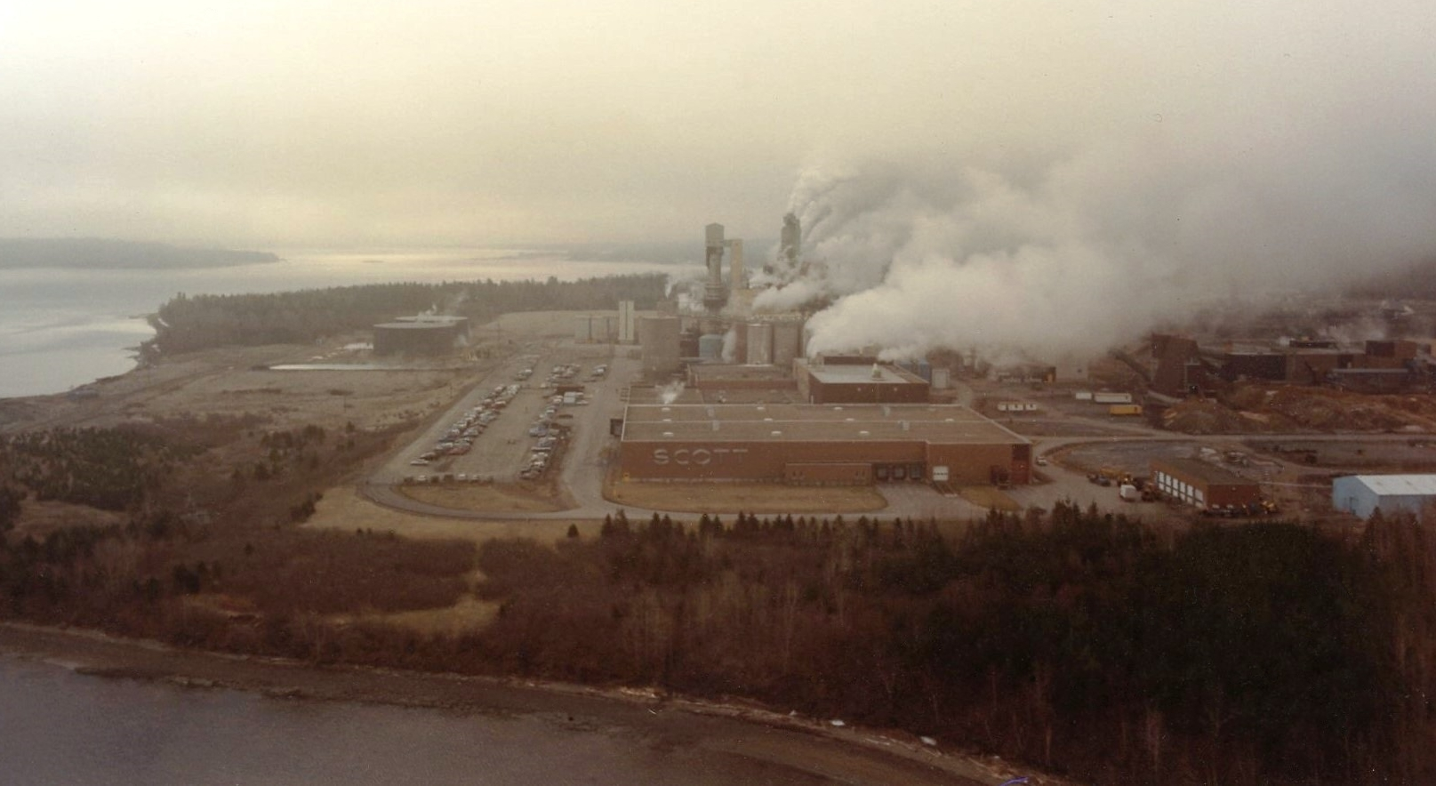 Scott Paper pulp mill, Abercrombie Point, Nova Scotia (1990s)